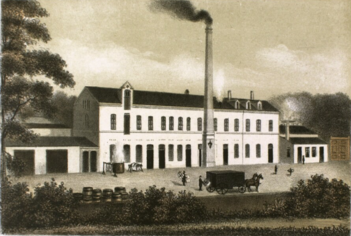 Goldschmidt & Nordholms Farveri at Ryesgade 23 in Copenhagen, Denmark